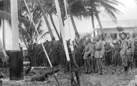 Troops cheering the unfurling of the British flag at the German Government Station on the surrender of Nauru. In the foreground (left) is Captain Norrie Officer Commanding (OC) (later Colonel of the 25th Battalion) and on the right is Captain Travers (later Colonel of the 26th Battalion) Staff Officer..